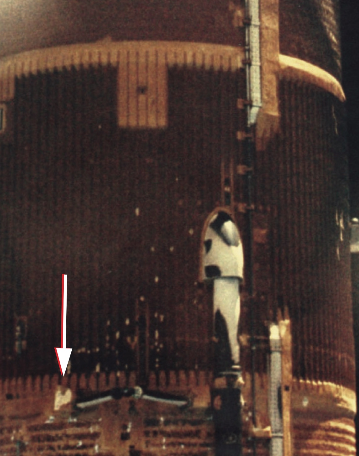 Damage sustained by the External Tank during STS-7 launch.